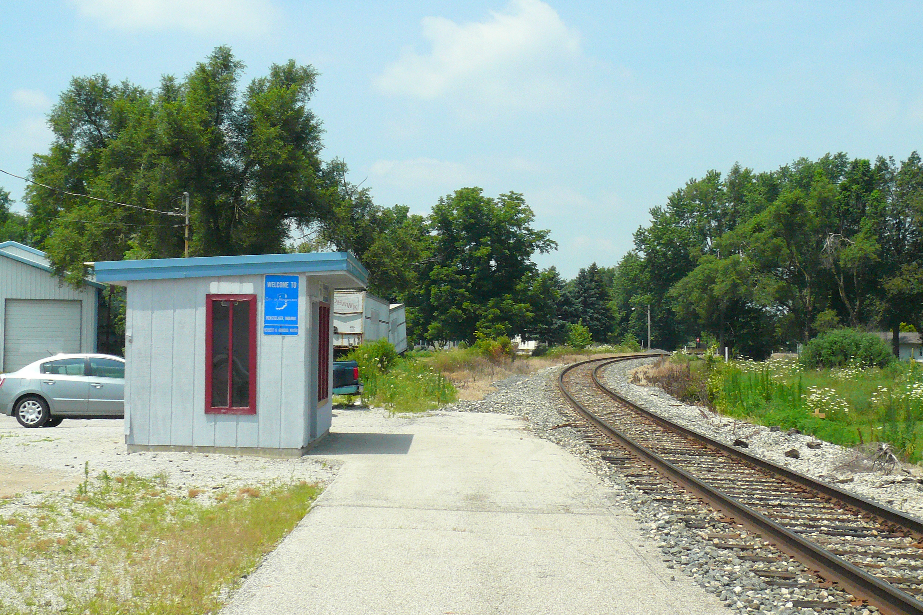 Rensselaer station in 2010, shortly before a new platform and shelter were built